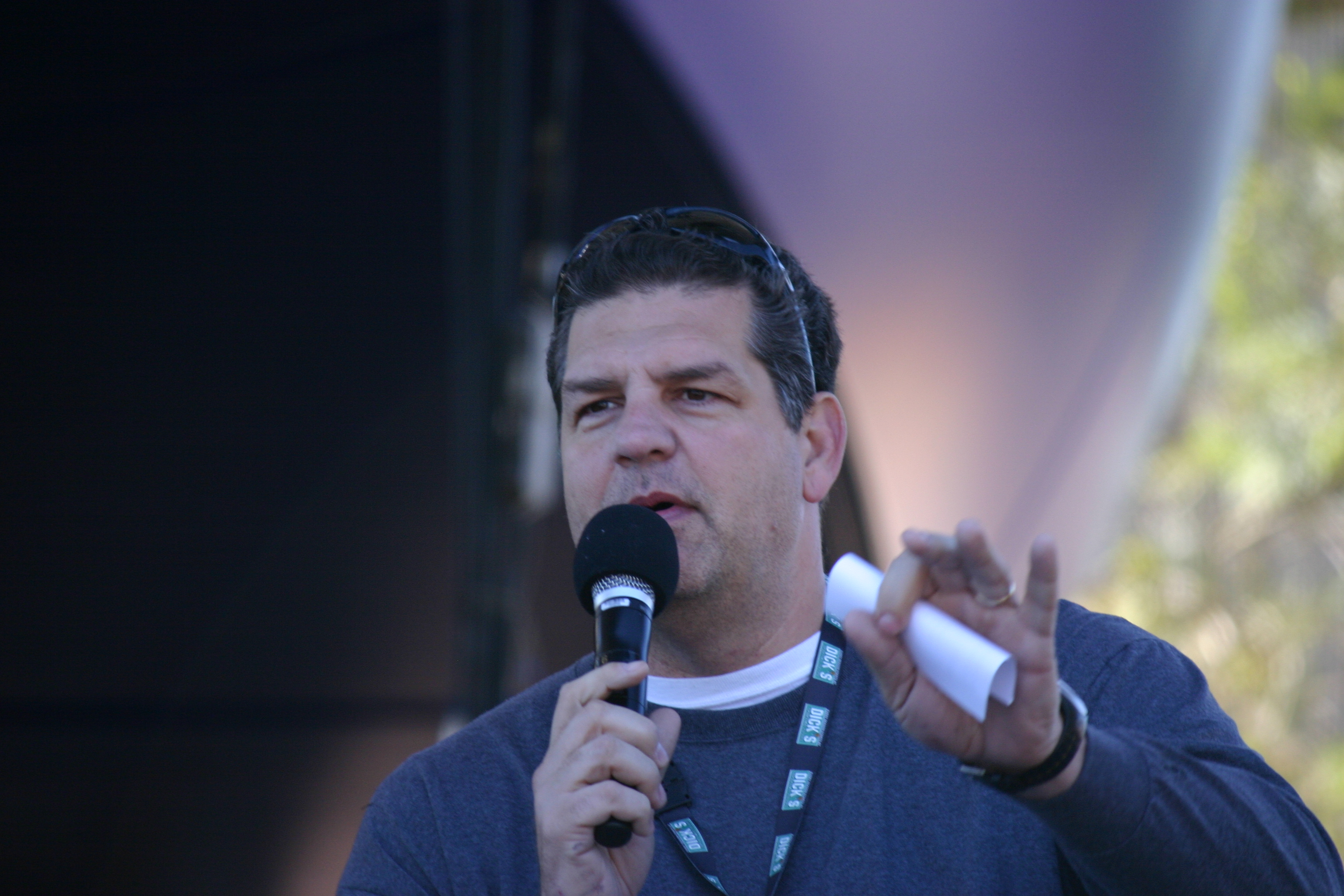 Mike Golic of ESPN Radio's Mike and Mike at the Sorcerer Hat Stage during ESPN The Weekend, February 26, 2010